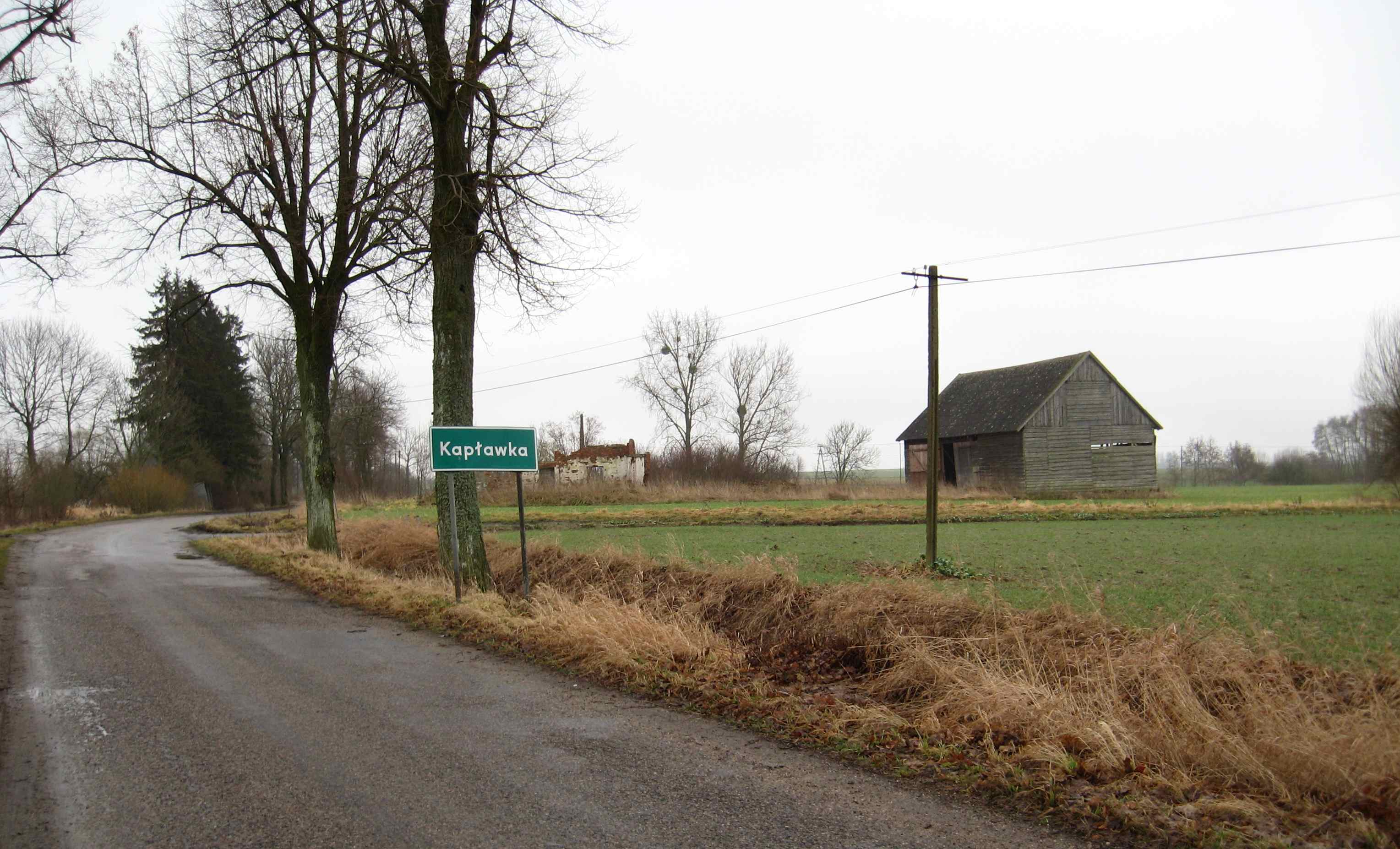 The village Kąpławki in Poland - the image shows the town shild of Kąpławki. Still, there is written Kapławka, so 2 spelling mistakes. The first a should be an ą and the last a should be an i. The village Kąpławki itself is not shown on the image. The buildings belong to Garbnik, see Image:2008-02 Garbnik 1.jpg. Kąpławki is left (east) of this road/image. - OpenStreetMap (Info)